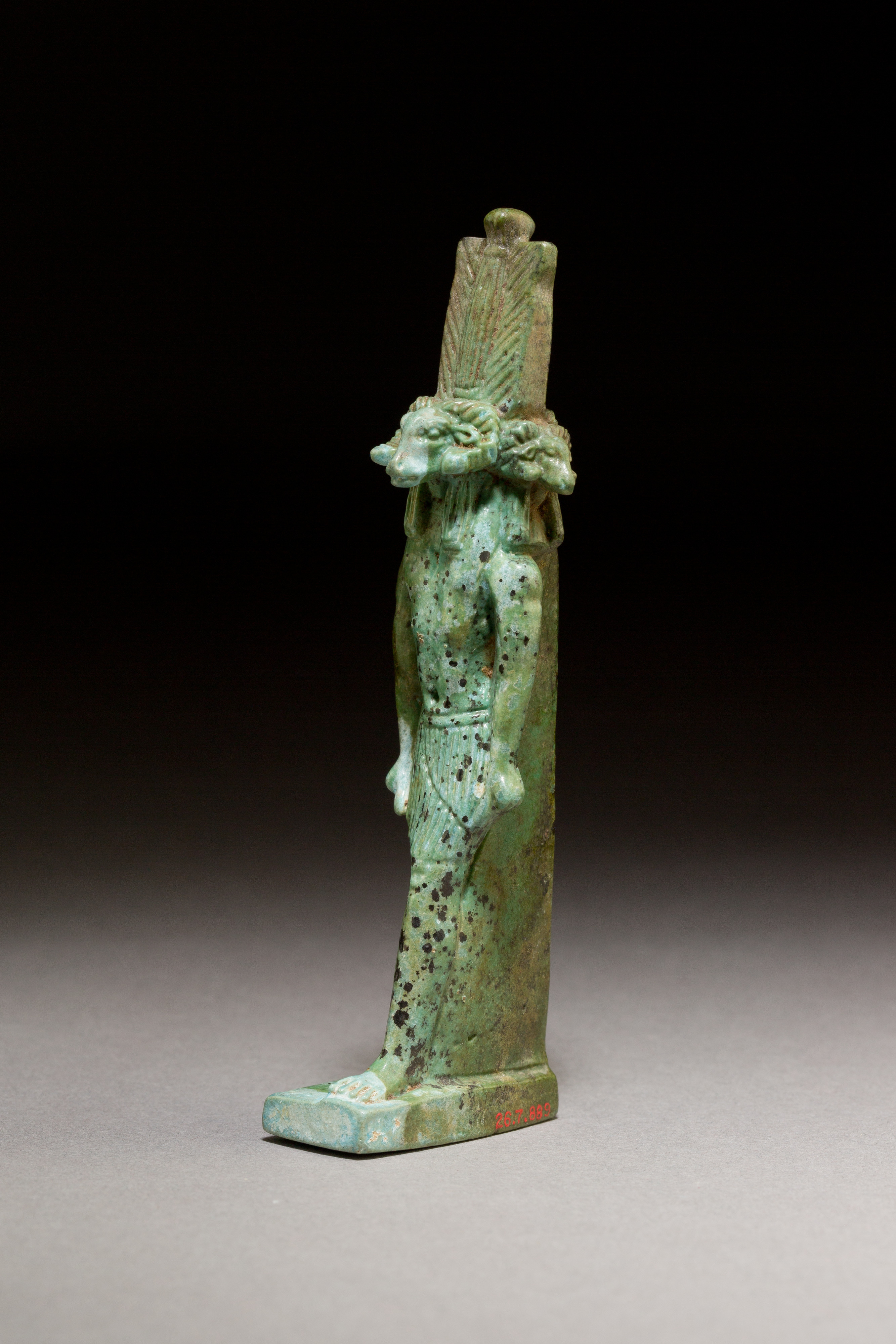 Amulet, Khnum?, ram, four-headed